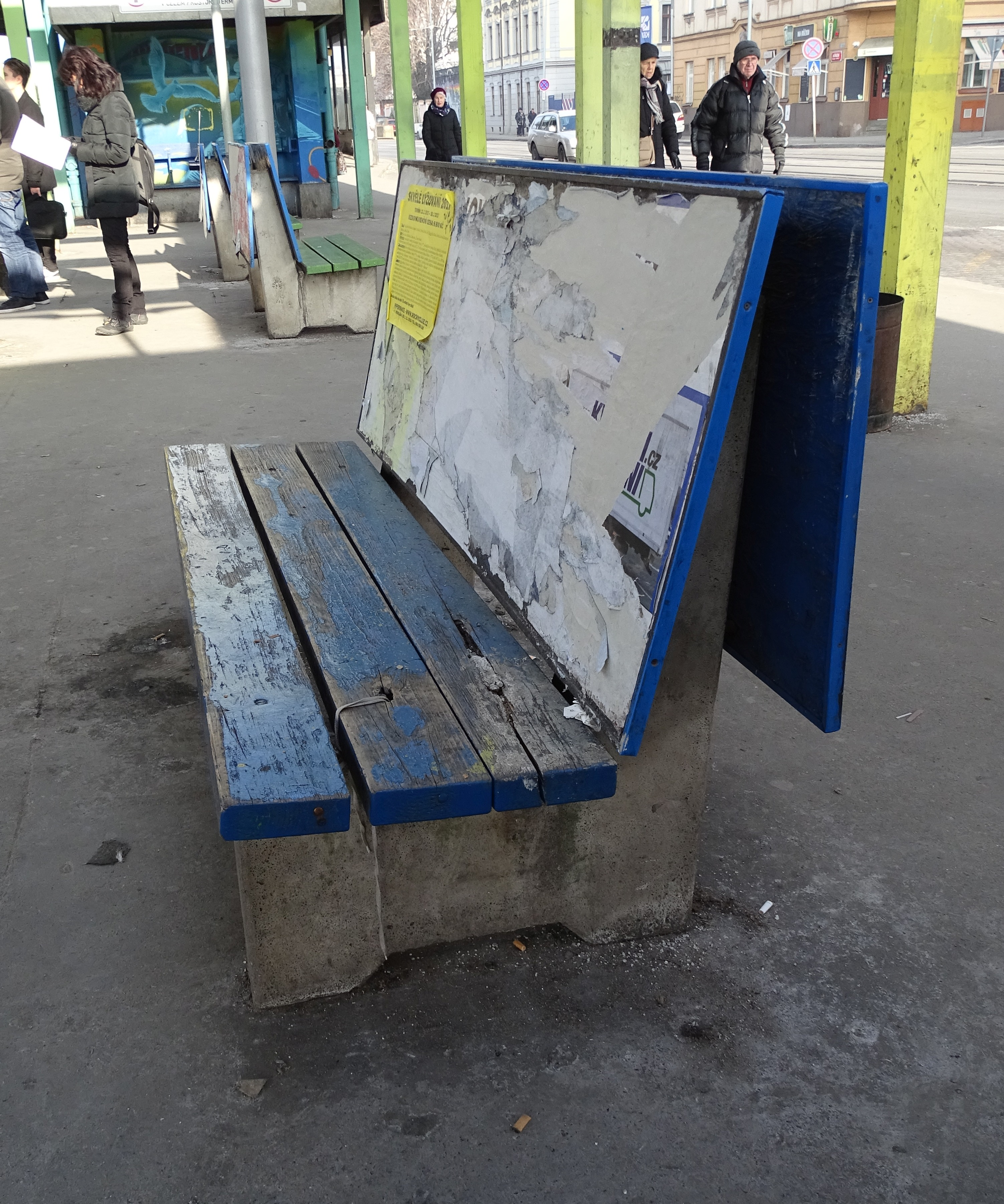 Prague-Smíchov, Czechia, Smíchovské nádraží, bus terminal.